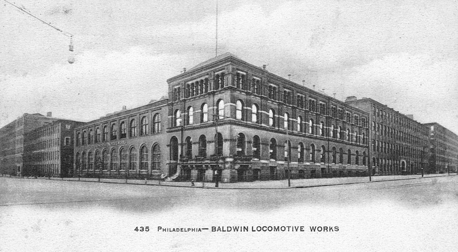 Postcard photo of the Baldwin Locomotive Works in Phildelphia, PA.